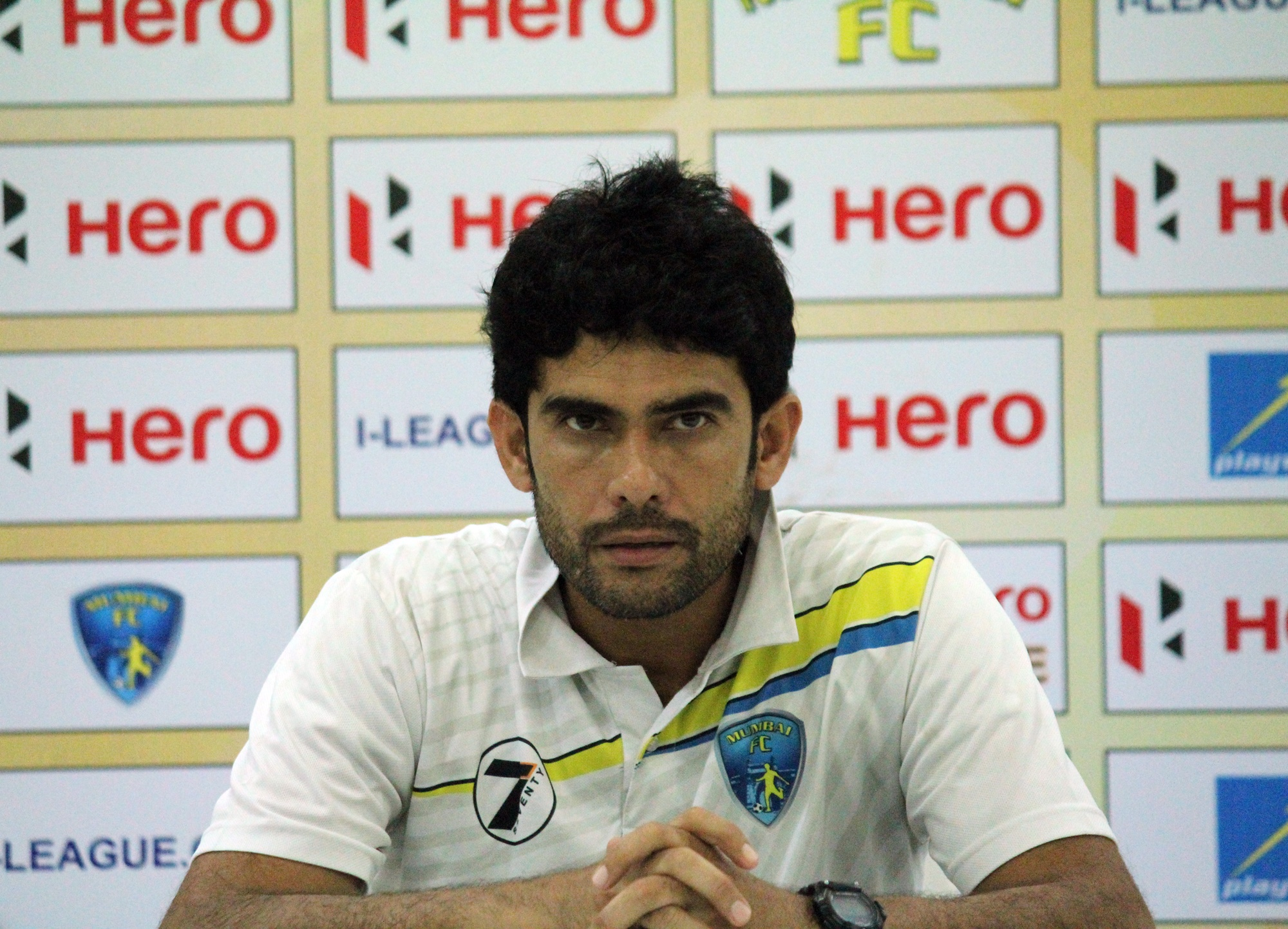 Khalid Jamil At Mumbai FC Pre Match Conference